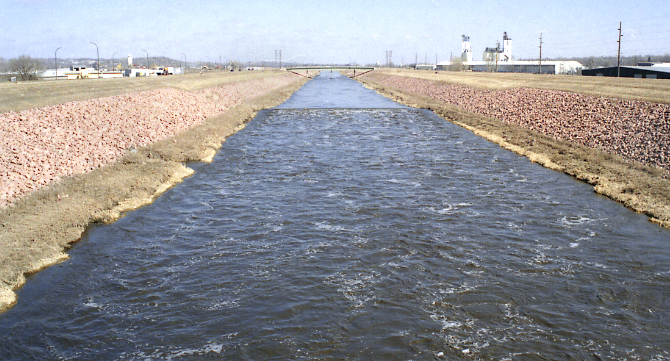 A channelized portion (with riprap) of the Floyd River in Sioux City, Iowa